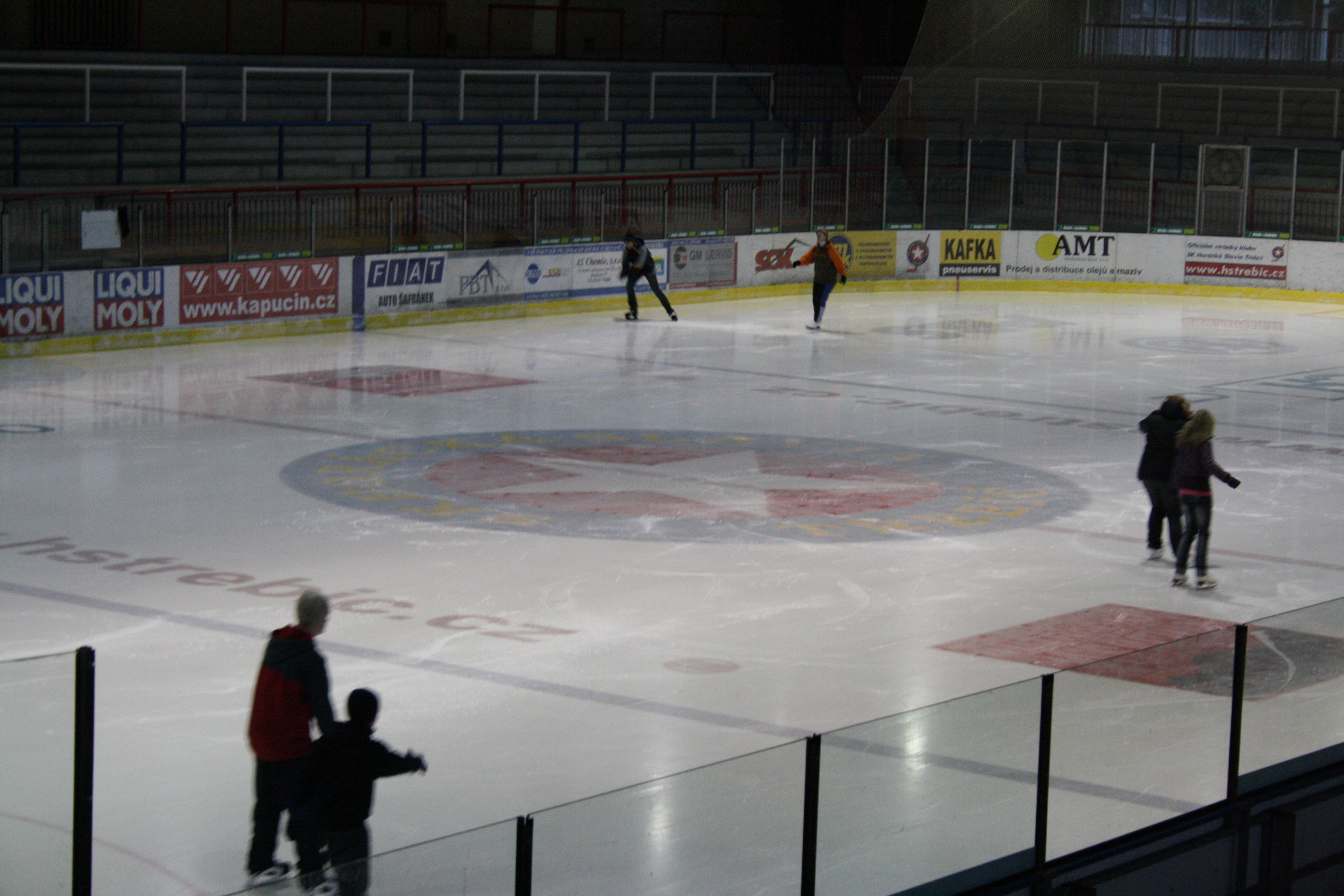 Logo of Horácká Slavia at ice in Mann+Hummel Arena Třebíč, Czech Republic.